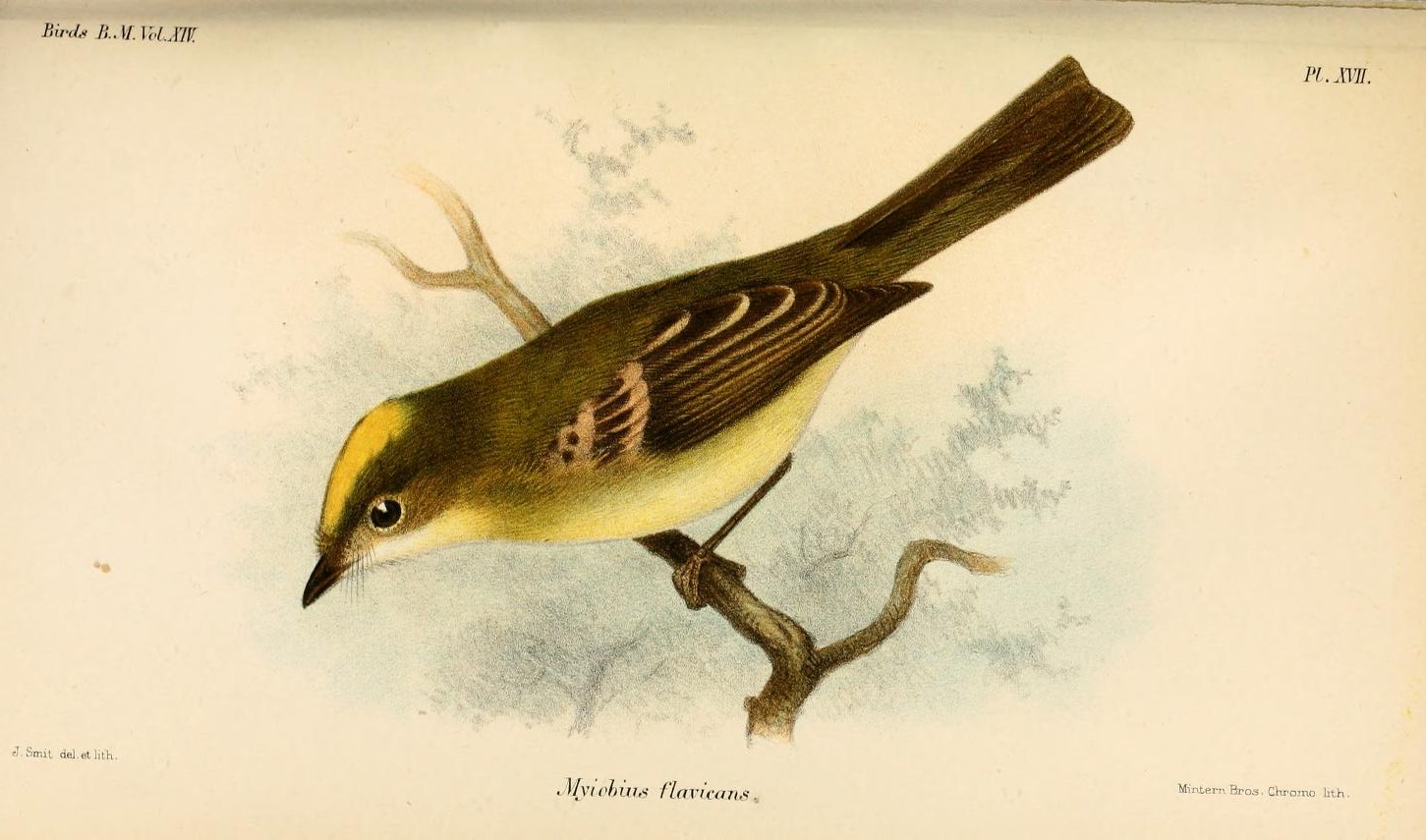 Myiobius flavicans = Myiophobus flavicans, Flavescent Flycatcher